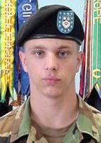 In January 2000 the 1st Battalion, 23rd Infantry Regiment began transformation into the first Interim Brigade Combat Team Infantry Battalion, leading the Army in the Chief of Staff?s vision of a highly-deployable and decisively lethal early-entry combat force. Since then the Tomahawk Battalion has lead the Brigade in developing the doctrine and training methodologies necessary to prepare to face our future?s emerging asymmetrical threats. The black beret symbolizes the consummate professionalism epitomized by the soldiers, noncommissioned officers, and officers of the 1st Battalion. Just as the Tomahawks are the archetype of the future of U.S. Army Combined Arms, the youngest member of the Battalion is the model of the Army?s future. His photo and the beret he donned with the Battalion are on display in the Battalion's Transformation Hallway. Information presented on Fort Lewis/I Corps website is considered public information and may be distributed or copied for non-commercial purposes.